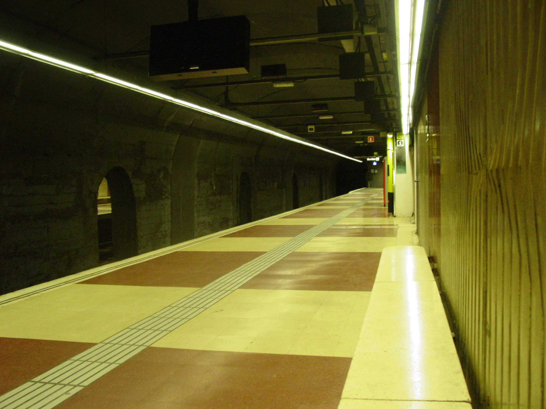 Platform view of Palau Reial station on line 3 of Barcelona Metro. 3.9.2013